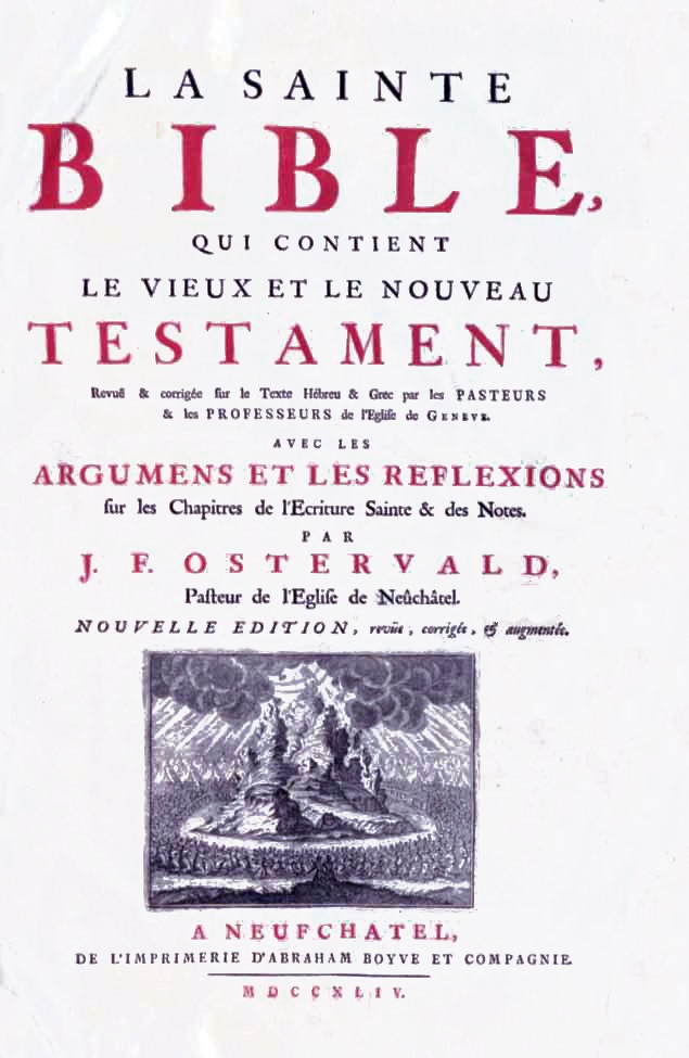 Bible d'Ostervald, 1744